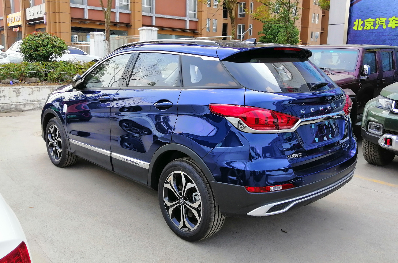 Senova Zhixing photographed in Hefei, Anhui province, China.